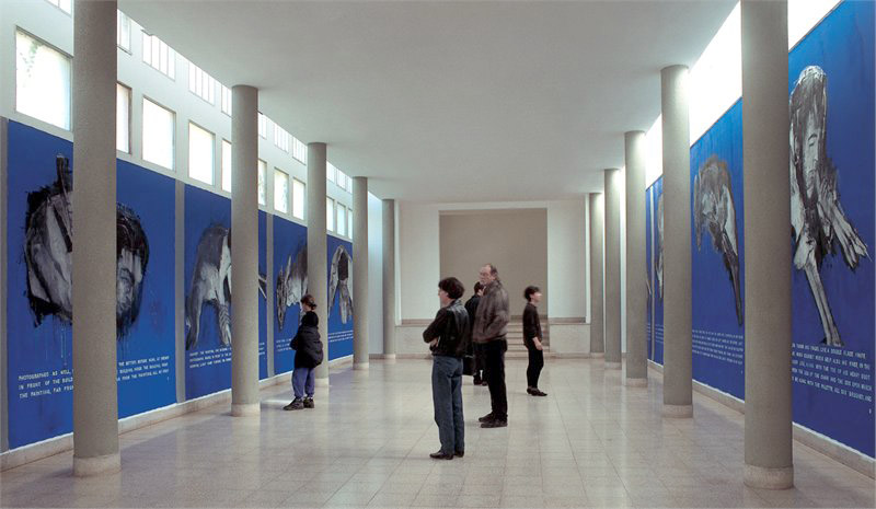 The U in Gustave, exhibition by Tamar Getter, 1994